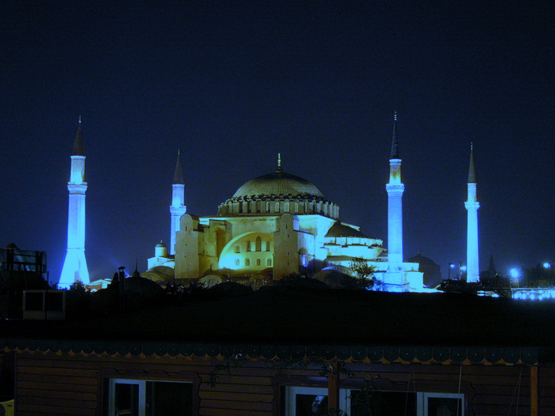 Aagia Sophia (Hagia Sophiā)